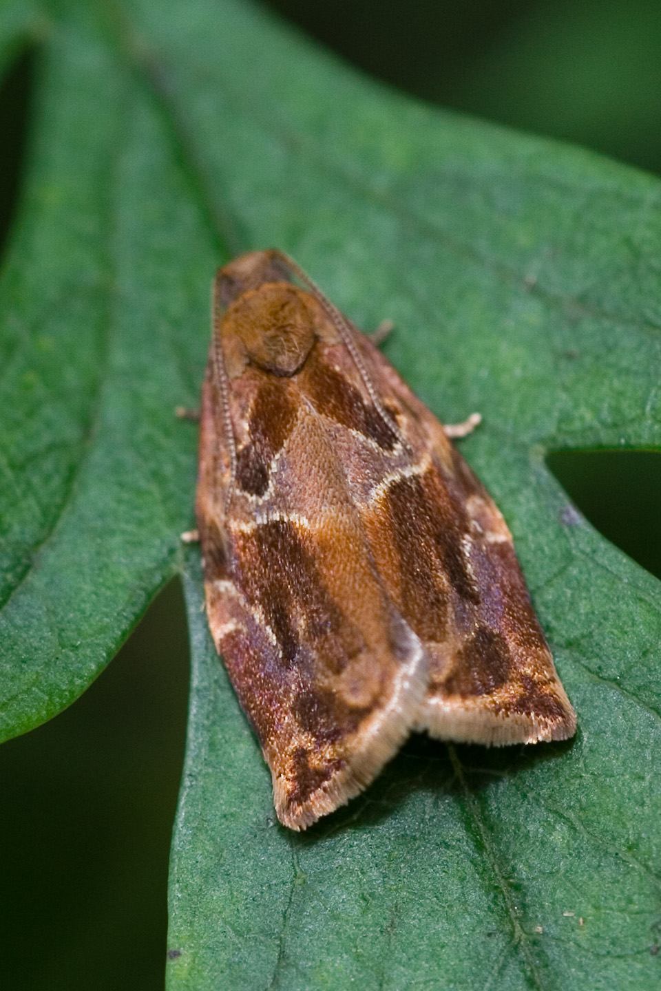 Archips xylosteana